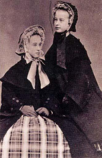 A young Kate Haroney (seated) with her sister. She also known as Kate Fisher, Big Nose Kate, Nosey Kate, Mrs. John H. "Doc" Holliday, among other names. Historical photo of Kate and her sister at about the time she left Davenport, circa 1867. The photo is presumed in the public domain and can be found in many places through Google images, and has been used in print in books such as Tombstone (Arcadia Publishing, 2003) by Jane Eppinga.